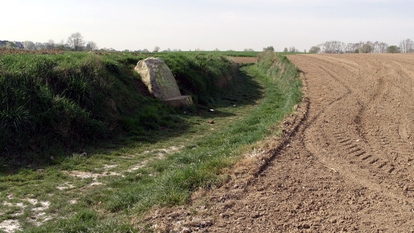 Maastricht, the Netherlands. Modern stone bench double-serving as a road sign at Romeinsebaan in the southwestern neighbourhood of Daalhof. Archaeological finds indicate that Romeinsebaan ("Roman track") was once part of the Roman road from Boulogne-sur-Mer via Maastricht to Cologne.